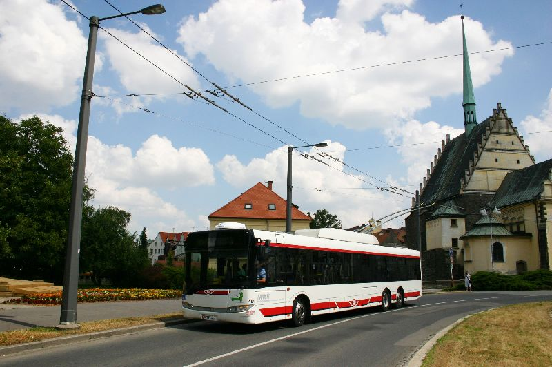 A Škoda 28Tr Solaris trolleybus in Pardubice, Czech Republic